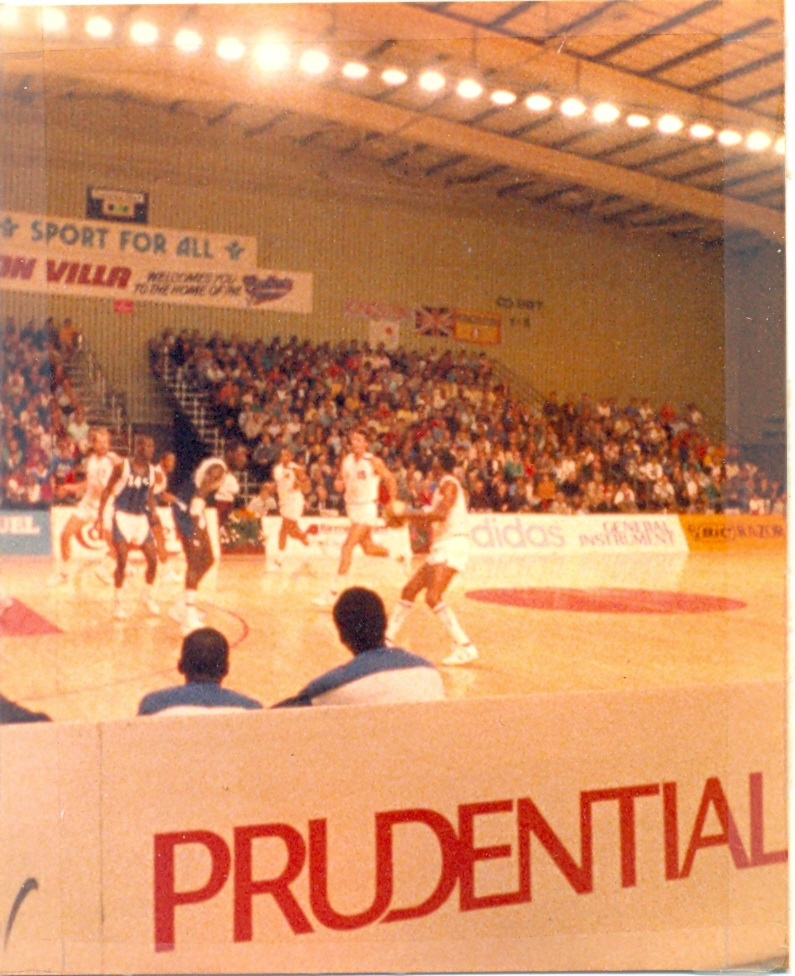 Action from Portsmouth FC Basketball Club (in white) v Calderdale Explorers, National Cup semi-final, Aston Villa Leisure Centre, Birmingham, November 30th 1986.